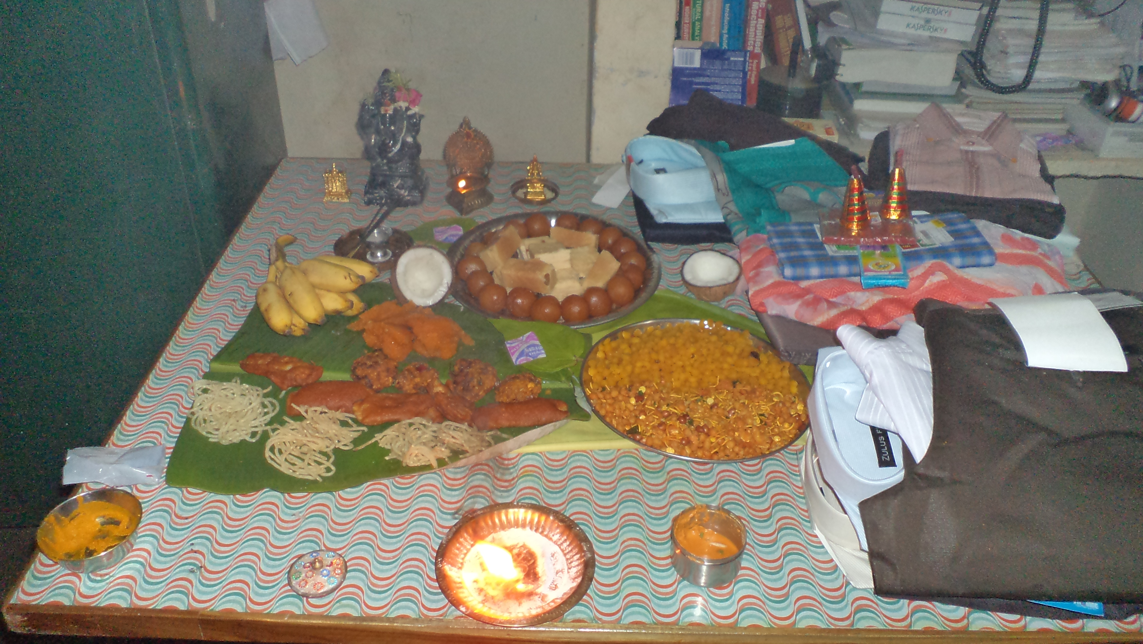 Padayal, (படையல்) the offering of food and other things to Gods